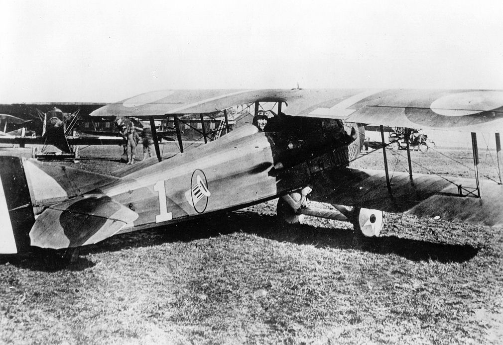 SPAD XIII of the 94th Aero Squadron, Foucaucourt Aerodrome, France, November 1918